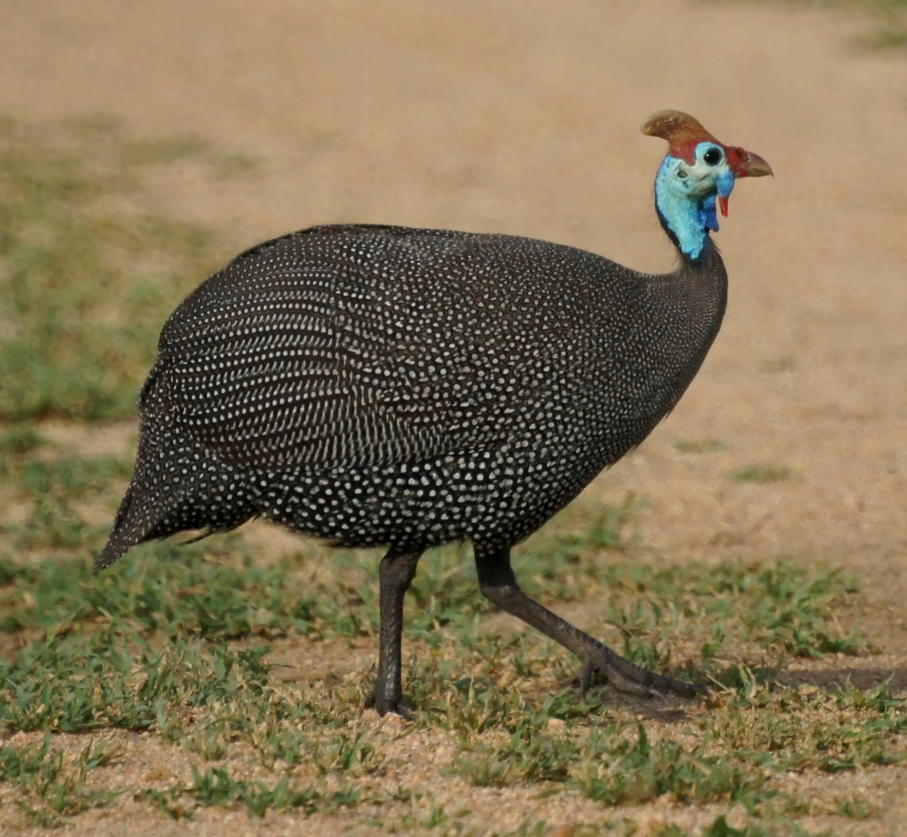 A Helmeted Guineafowl in Kruger National Park, South Africa.